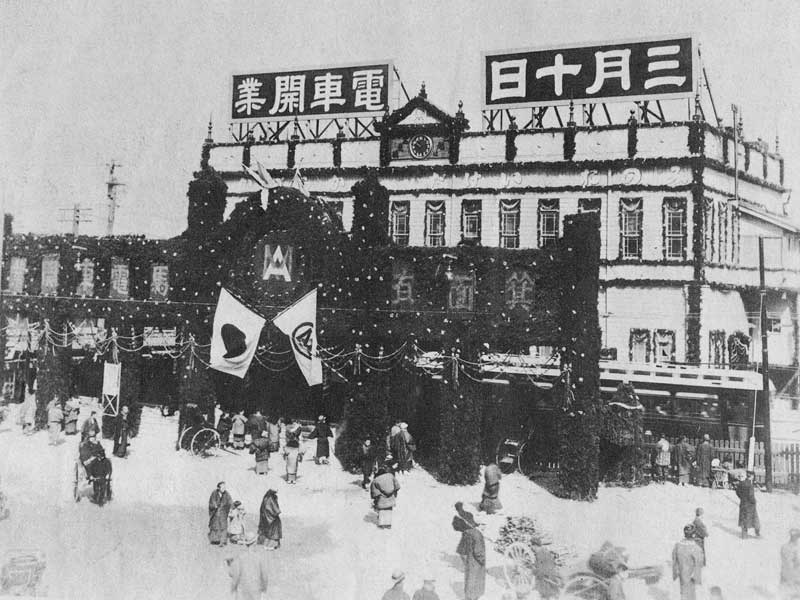 Osaka, Japan - Umeda Station of the Minoo Arima Electric Tramway (present-day Hankyu) decorated on the day of inauguration. Train is seen behind the temporary ornamental arch.